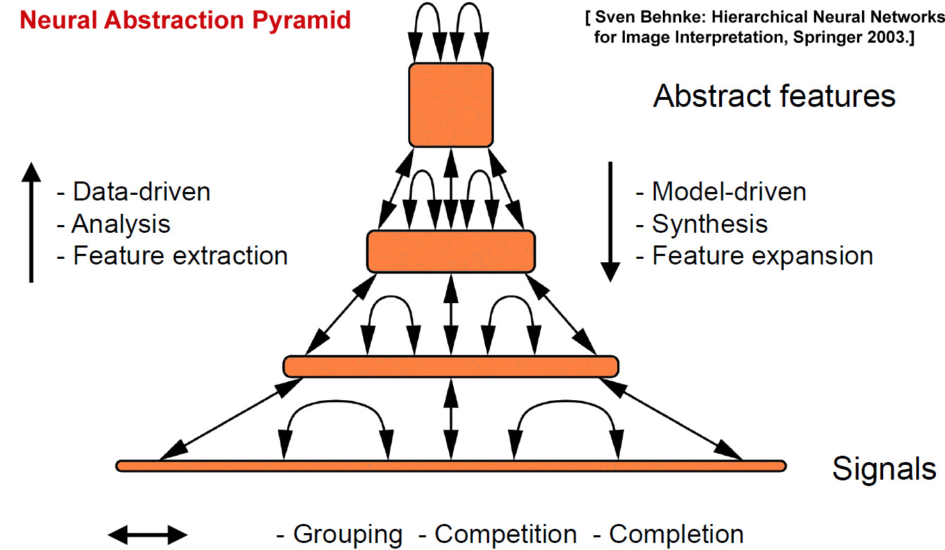 Sketch of the information flow in the Neural Abstraction Pyramid. This neural architecture for image interpretation was inspired by the visual cortex. Unlike feed-forward models such as LeNet, information flows also laterally between neighboring elements on the same level of abstraction and in a top-down direction from higher-layer representations to lower layers. This constitutes a hierarchical, recurrent, convolutional neural network that can iteratively resolve local ambiguities and recursively process video.